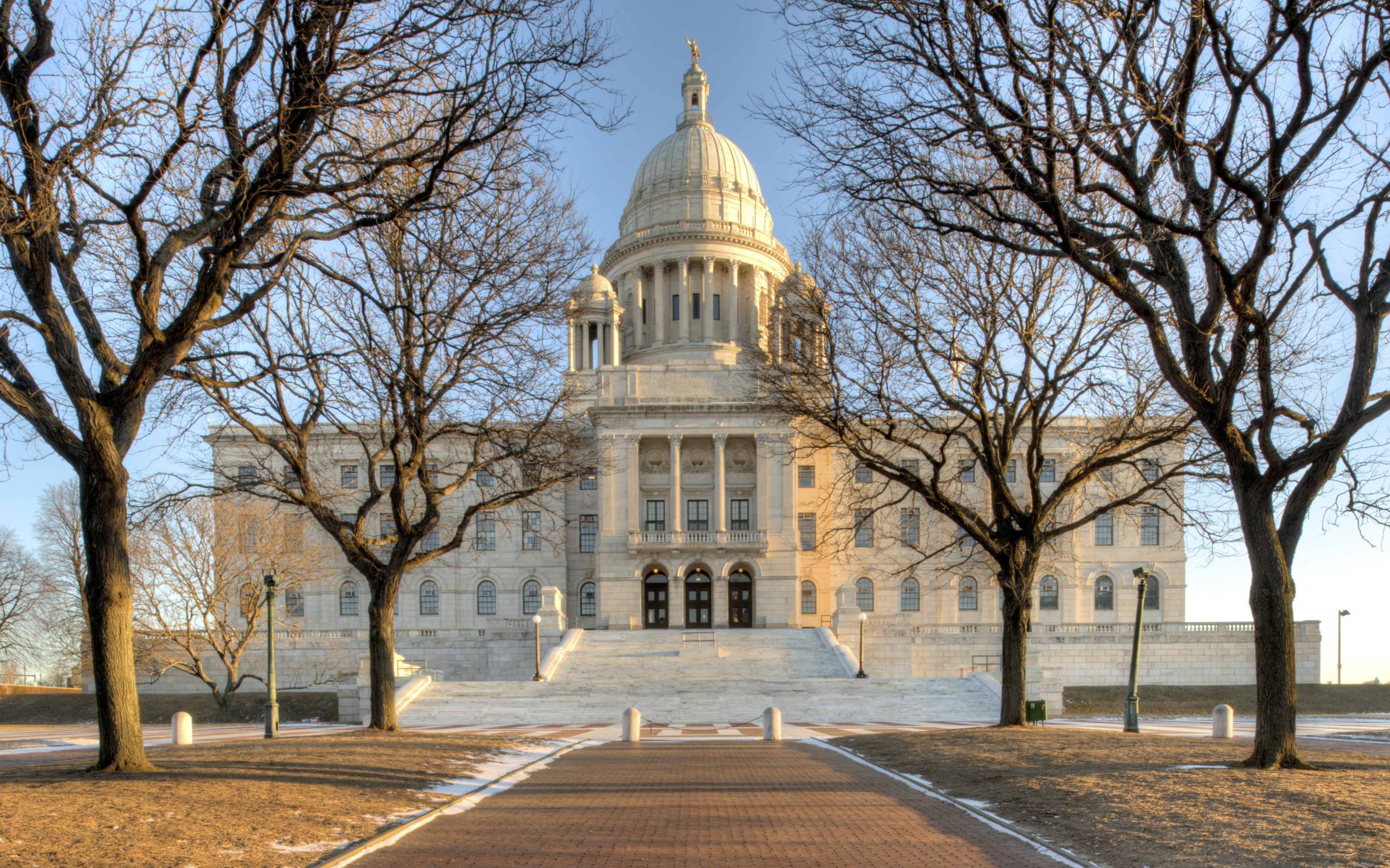 The Rhode Island State House is composed of 327,000 cubic feet of white Georgia marble, 15 million bricks, and 1,188 tons of iron floor beams. The dome of the State House is the fourth-largest self-supporting marble dome in the world, after St. Peter's Basilica, the Minnesota State Capitol, and the Taj Mahal. On top of the dome is a gold-covered bronze statue of the Independent Man, originally named "Hope".